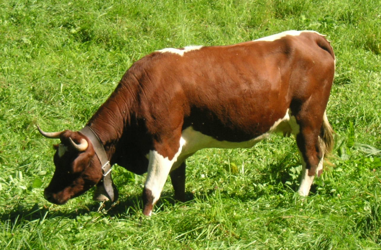 An Évolène cow at the open-air museum of Ballenberg, Switzerland.